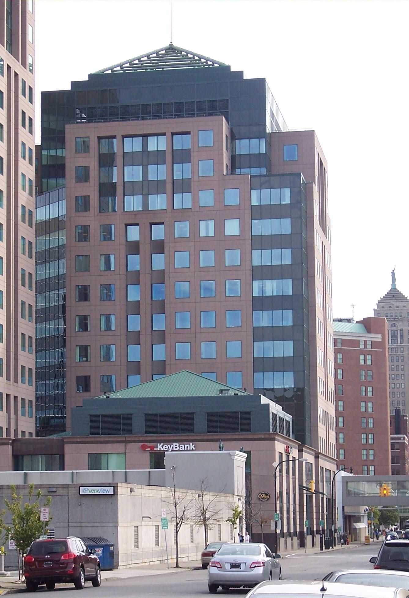 Key Center South Tower, 40 Fountain Plaza, Buffalo NY (Erie County) United States